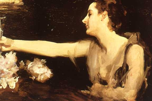 Study in oil for Madam X, champagne